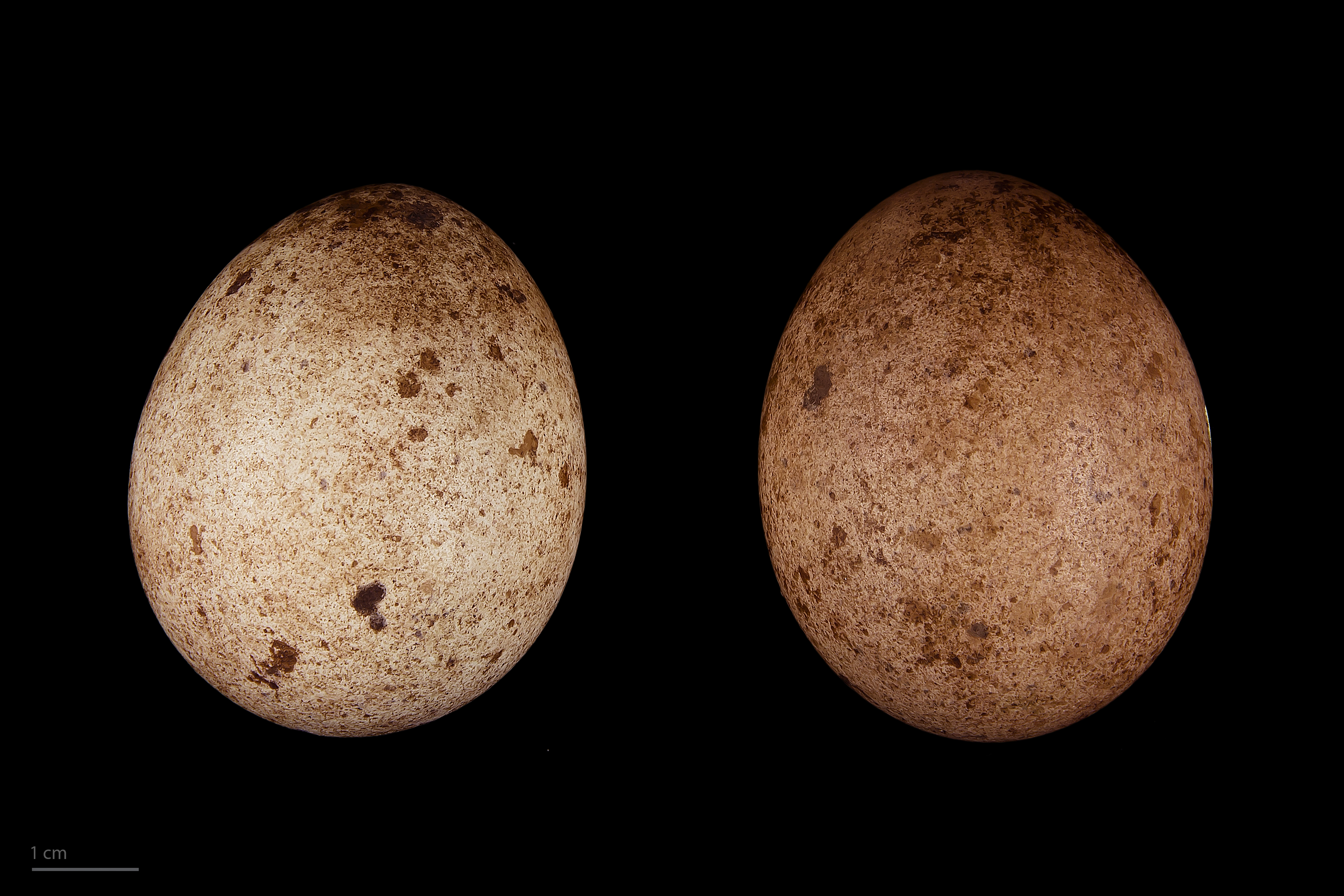 Eggs of peregrine falcon Two specimens of the same spawn ; collection of Jacques Perrin de Brichambaut.